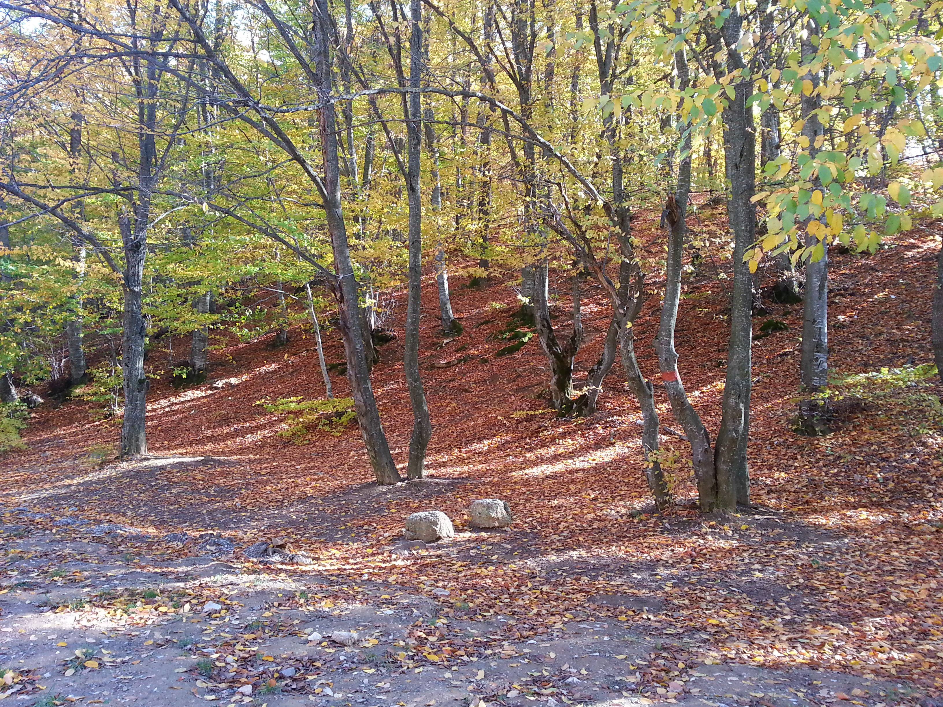 Germia in November 2012